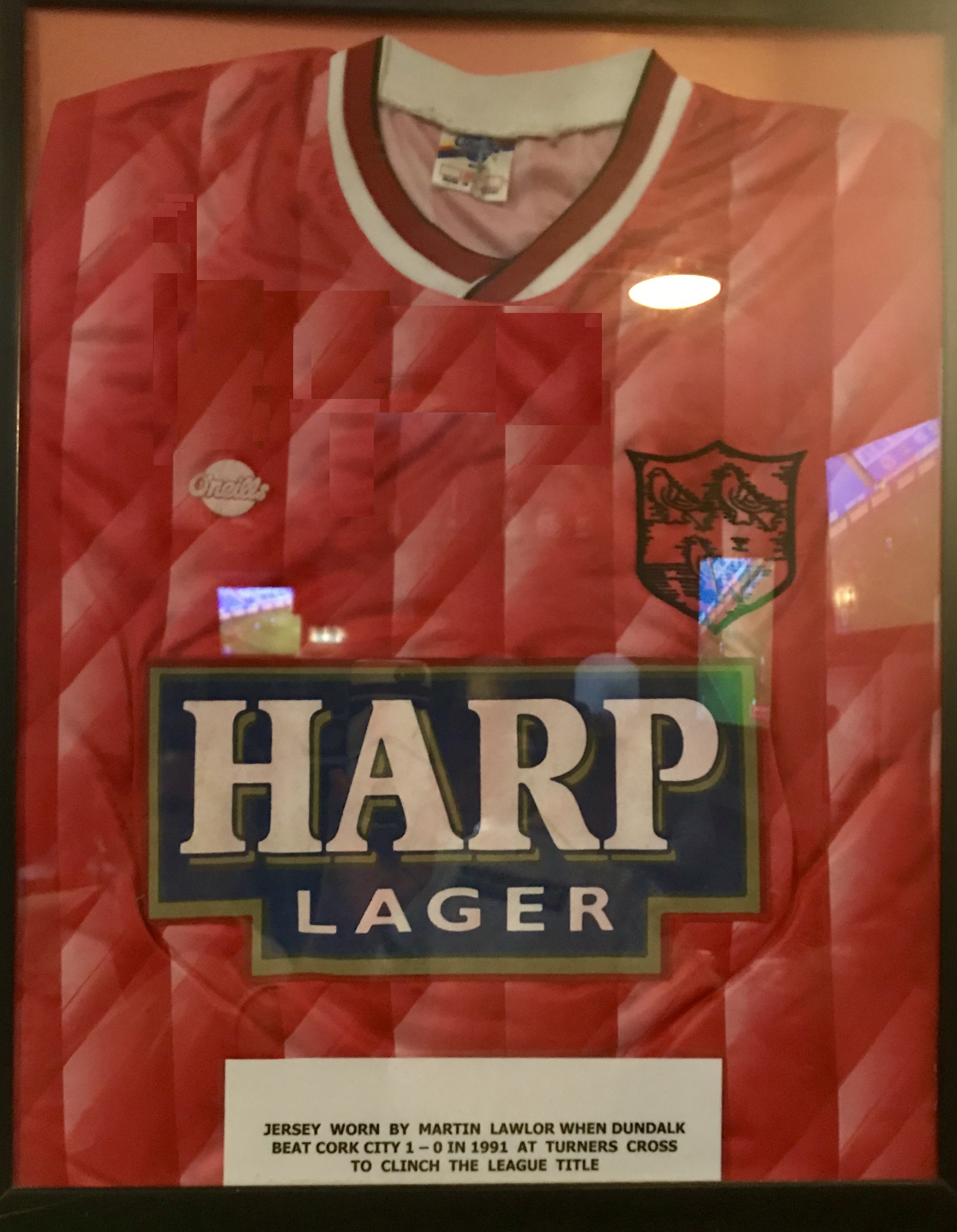 Martin Lawlor Jersey 1991